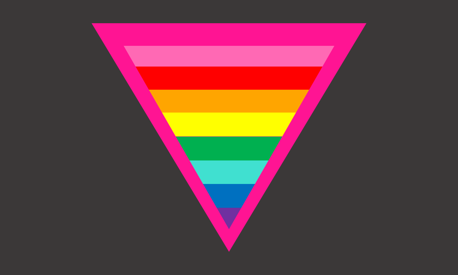 Picture of a design for a Queer Pride Flag designed and first introduced in 2018 by Emma Frye and two other activists in 2018 at the first annual Tri Pride Festival.